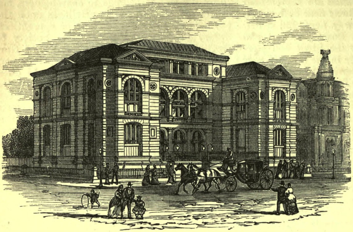 Drawing/wood engraving of Lenox Library in New York City.